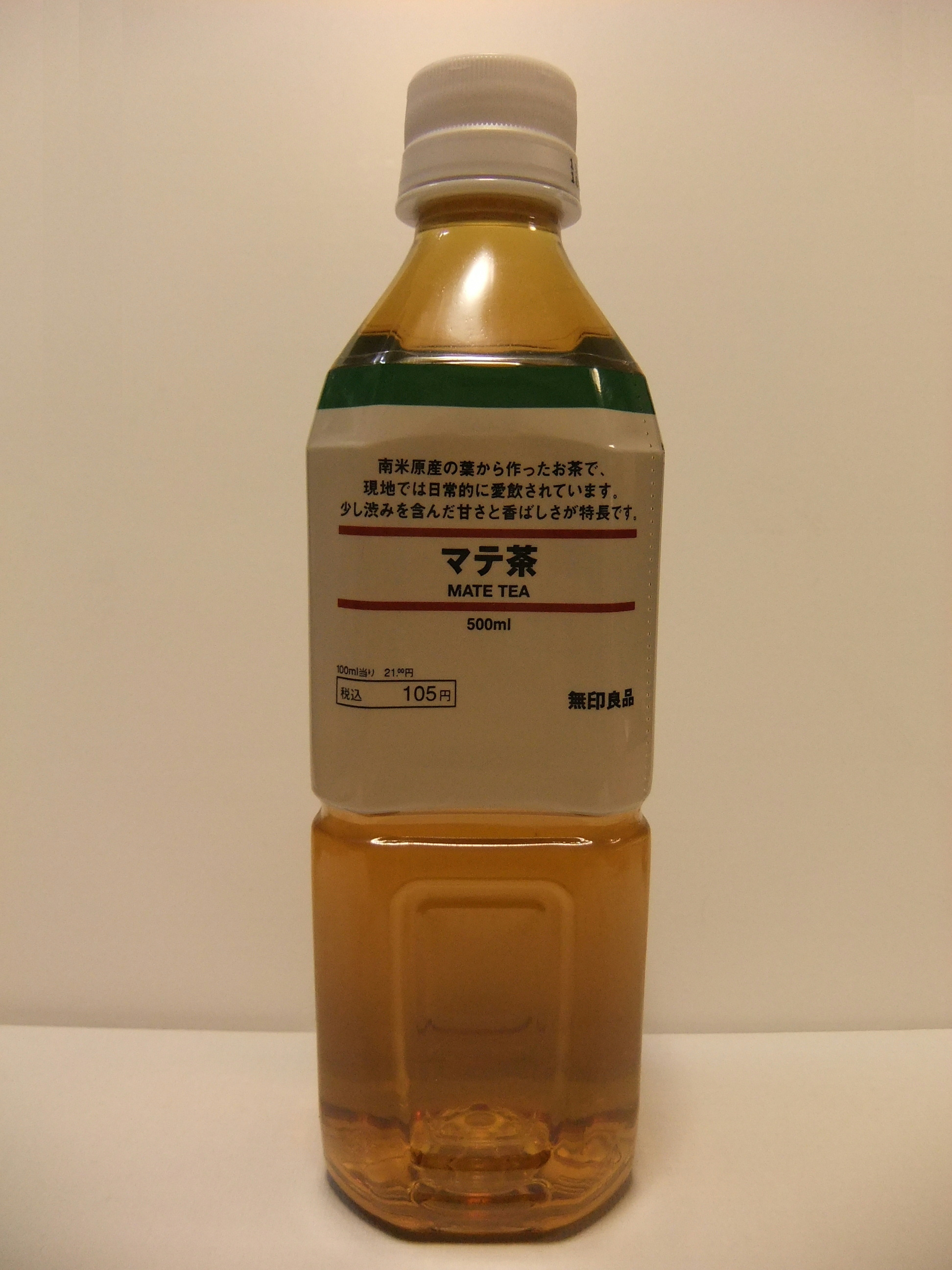 Mate Tea that Ryohin Keikaku Co., Ltd.(MUJI) is selling in Japanese markets